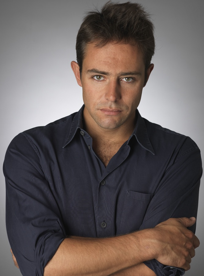 Manu Fullola picture